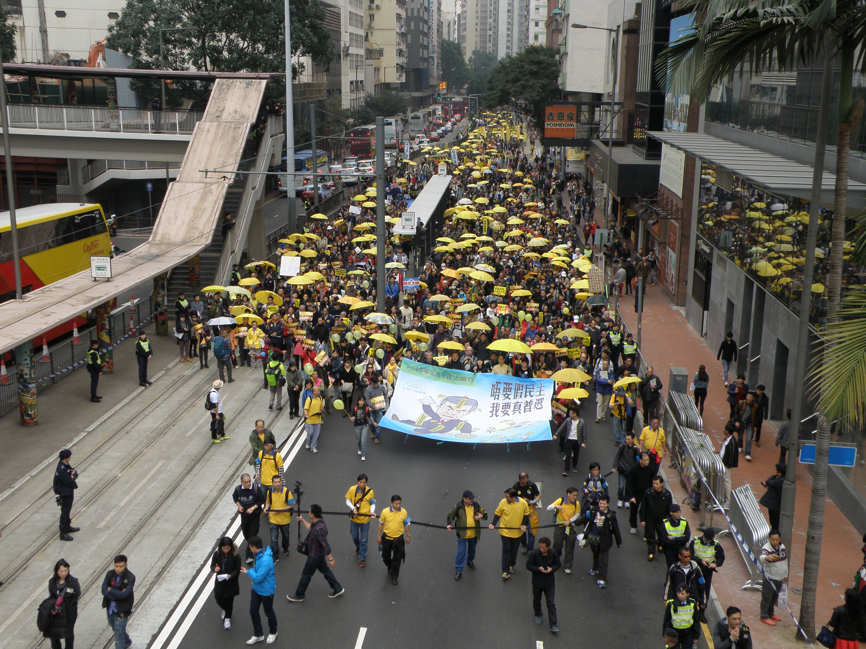 Hong Kong Marches for Real Universal Suffrage in February 2015.